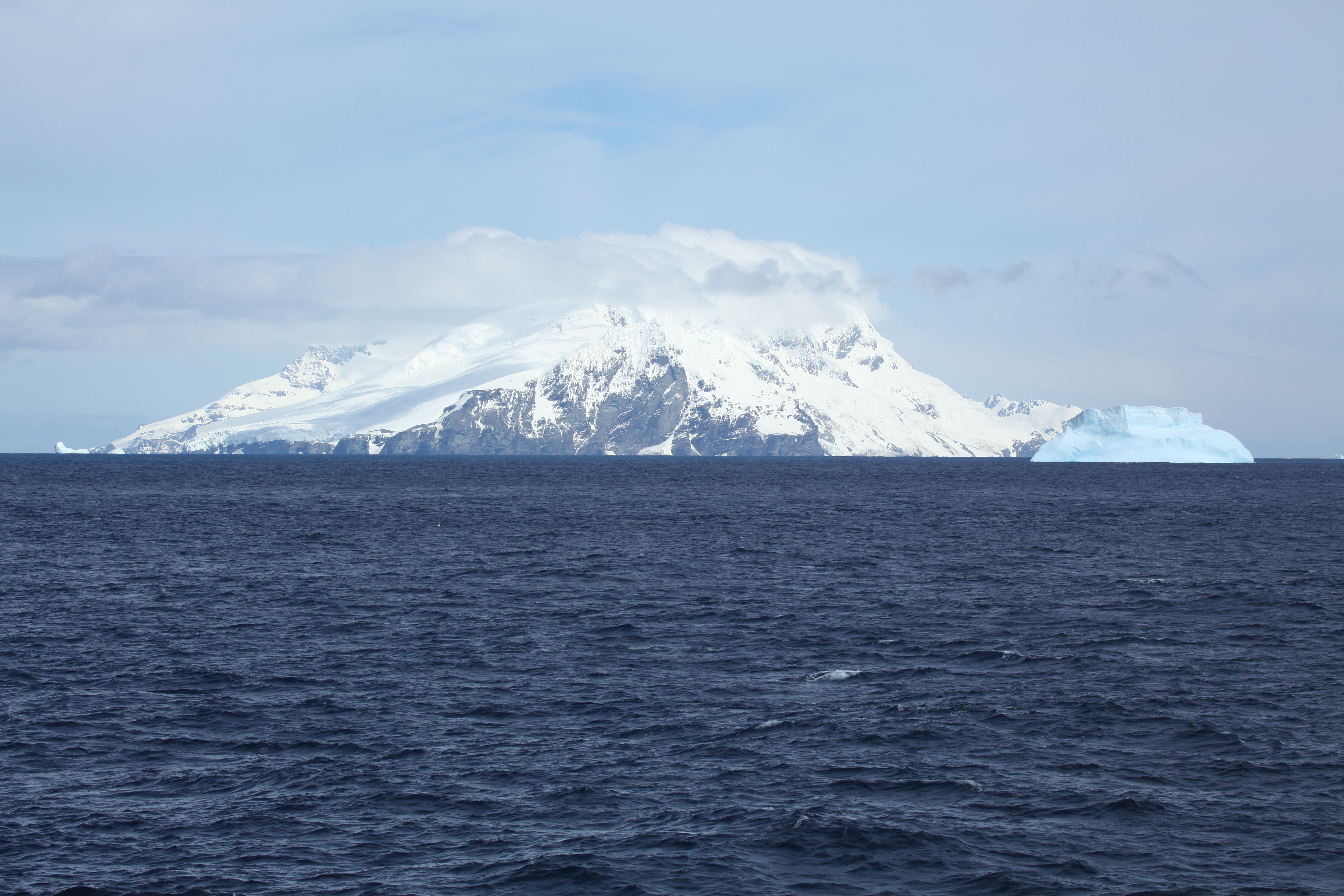 An iceberg floats in the Southern Ocean in front of Clarence Island.